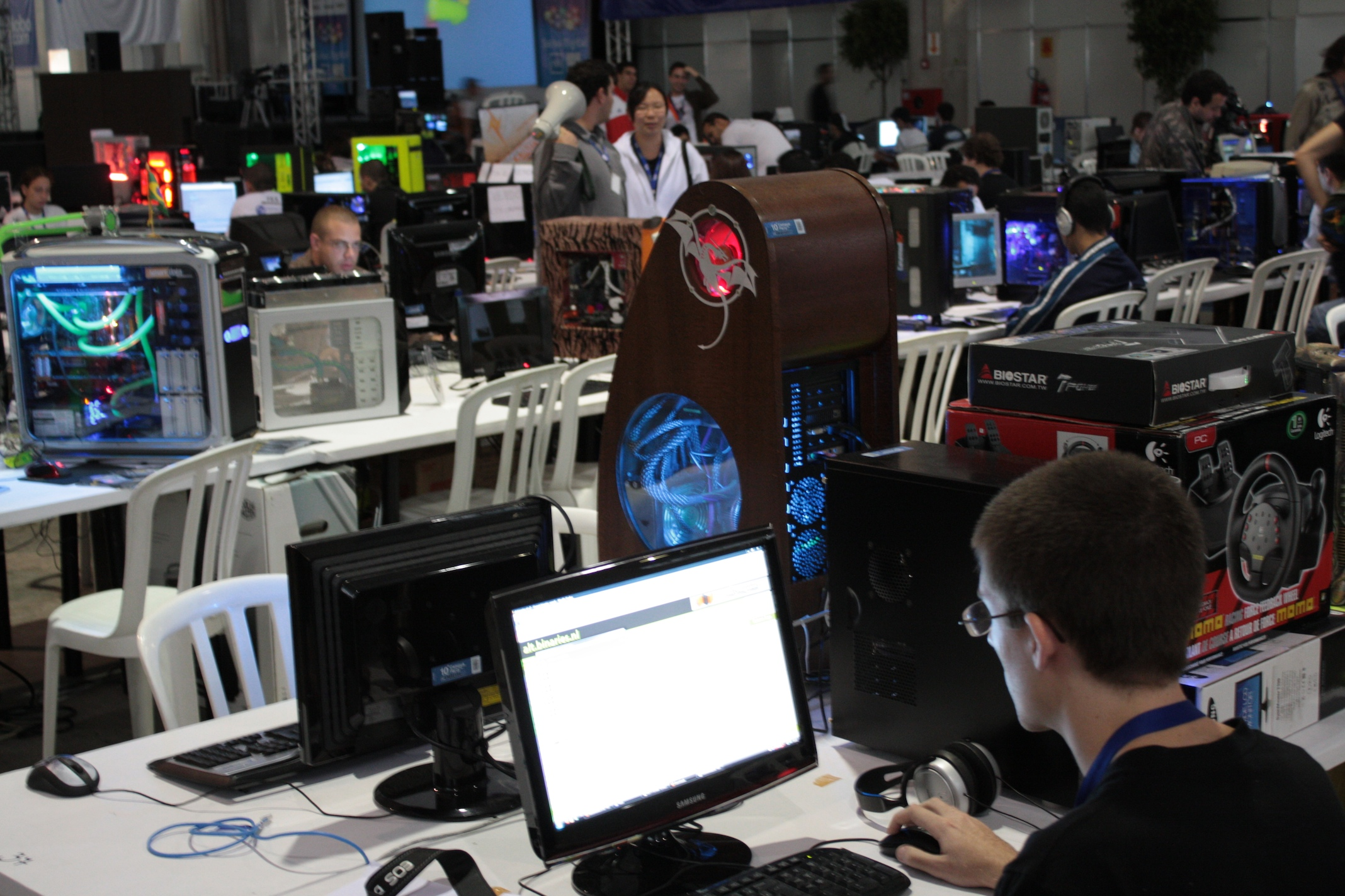 Casemod at Campus Party Brasil 2009